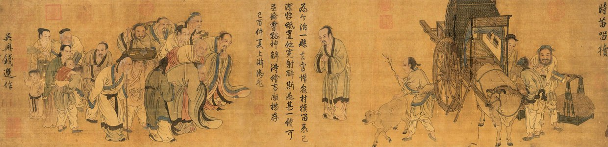 Qian Xuan. Shi Miao and the Calf. National Palace Museum, Taipei